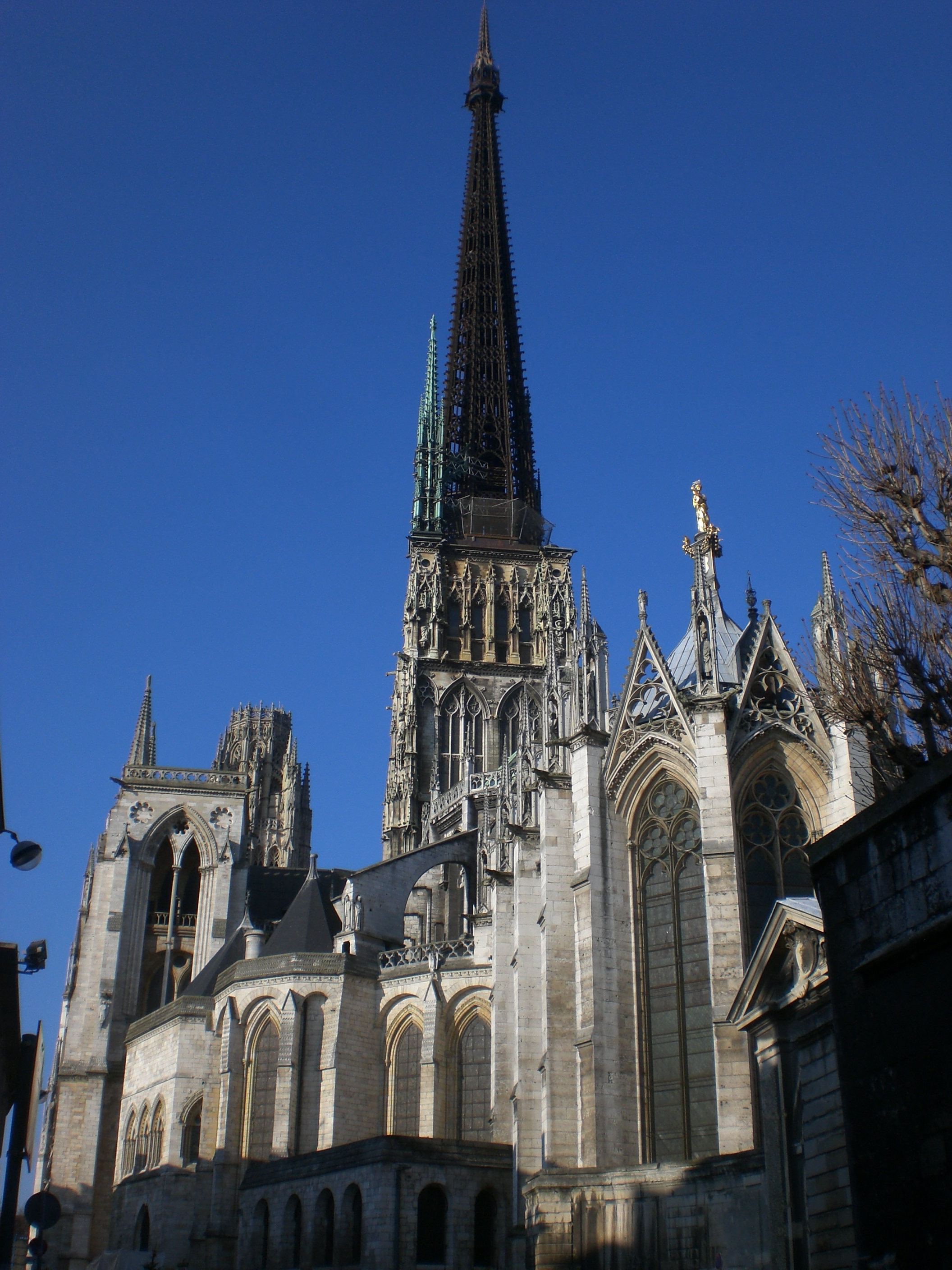 Rouen, Cathedral of Notre-Dame, choir vieuwing